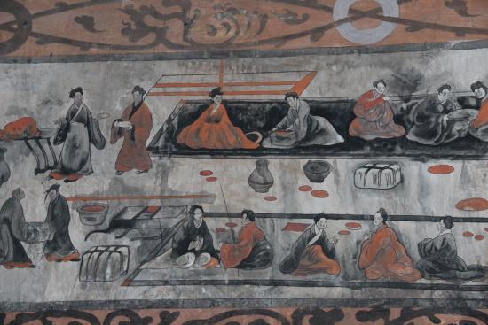 The Dahuting Tomb (Chinese: 打虎亭汉墓, Pinyin: Dahuting Han mu; Wade-Giles: Tahut'ing Han mu) of the late Eastern Han Dynasty (25-220 AD), located in Zhengzhou, Henan province, China, was excavated in 1960-1961 and contains vault-arched burial chambers decorated with murals showing scenes of daily life. For further information, see the Baidu article (in Chinese): 打虎亭汉墓. Click here for more pictures and a step-by-step walkthrough of the tomb, from the outside, down a stairwell, and through the vaulted burial chambers.